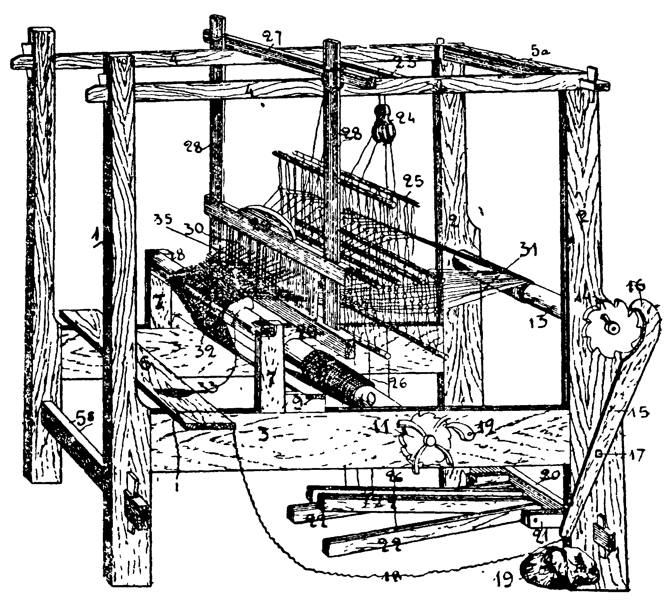 Image of loom from the "Dictionary of Ukrainian Language" by Borys Hrinchenko (1907–1909).